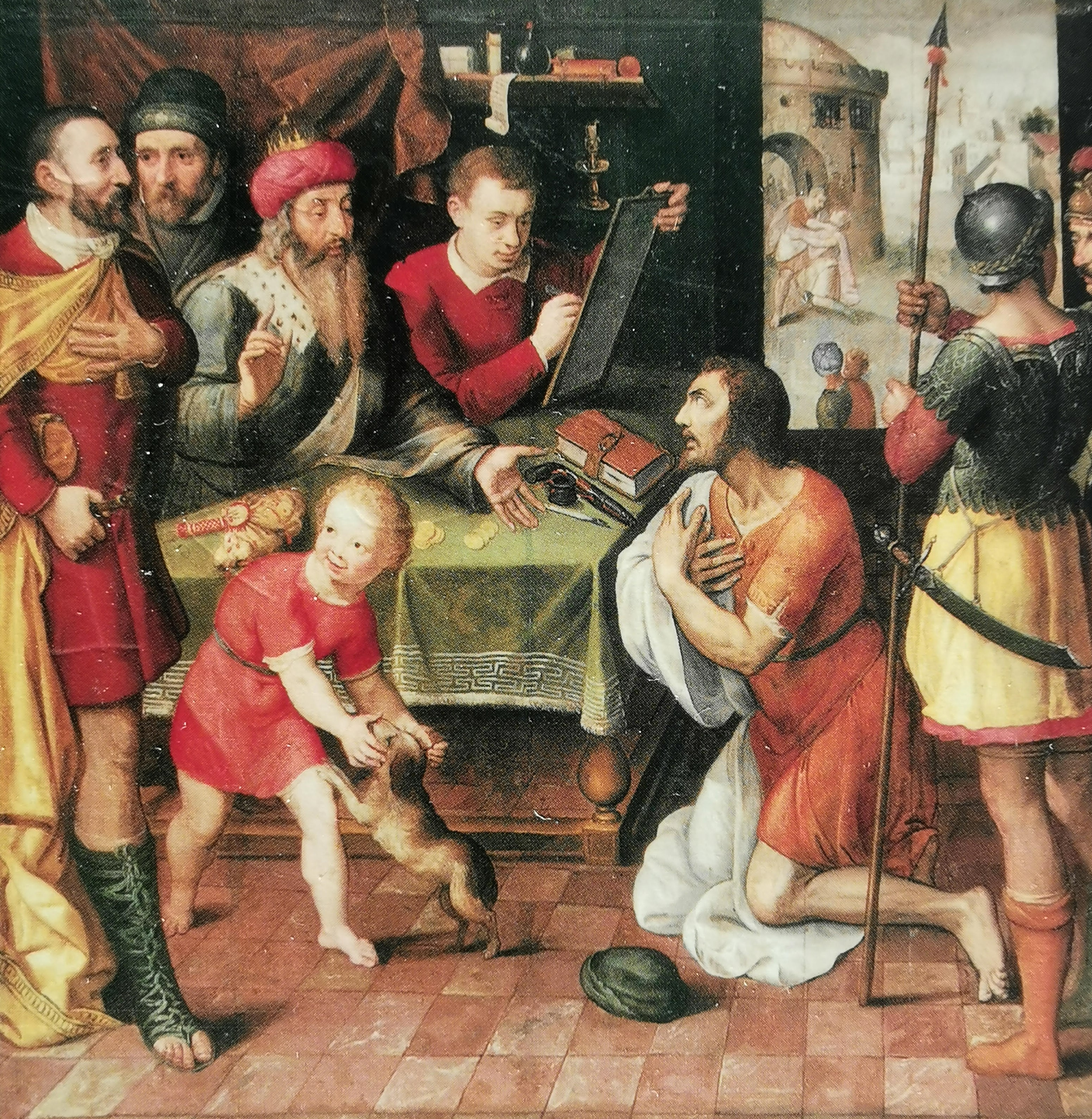 Painting of the Unmerciful Servant/Just Judge, attributed to Pieter Pourbus and dated around 1570 (private collection in Arlington, Virginia, USA)